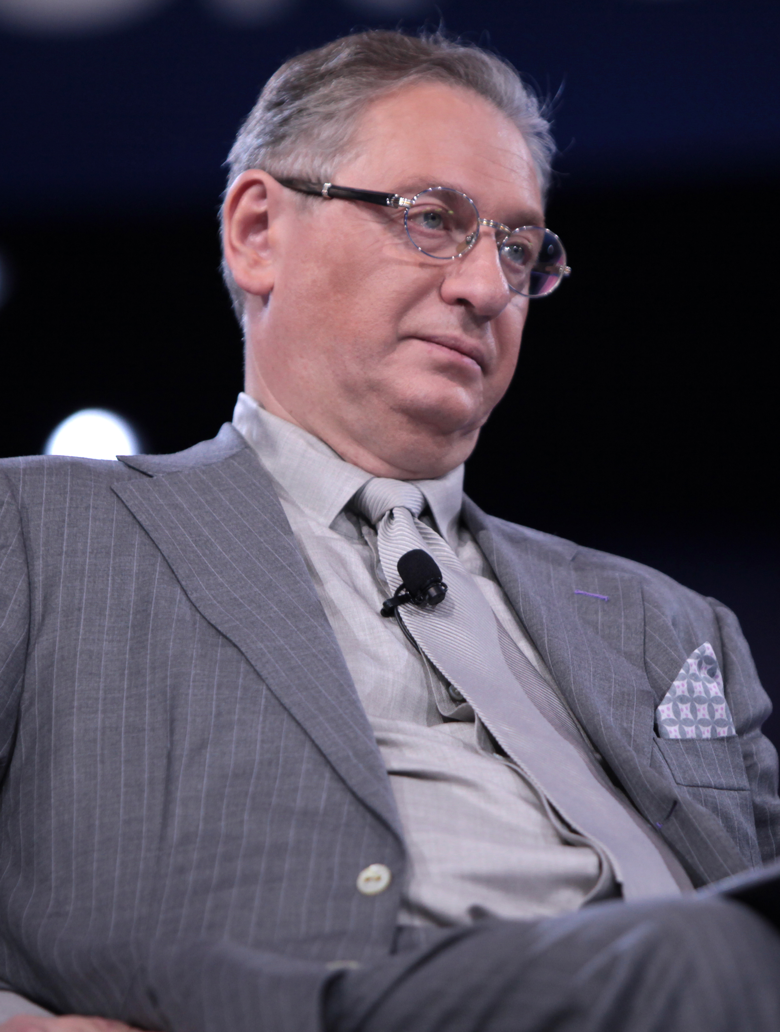 David B. Rivkin speaking at CPAC 2016 in National Harbor, Maryland.